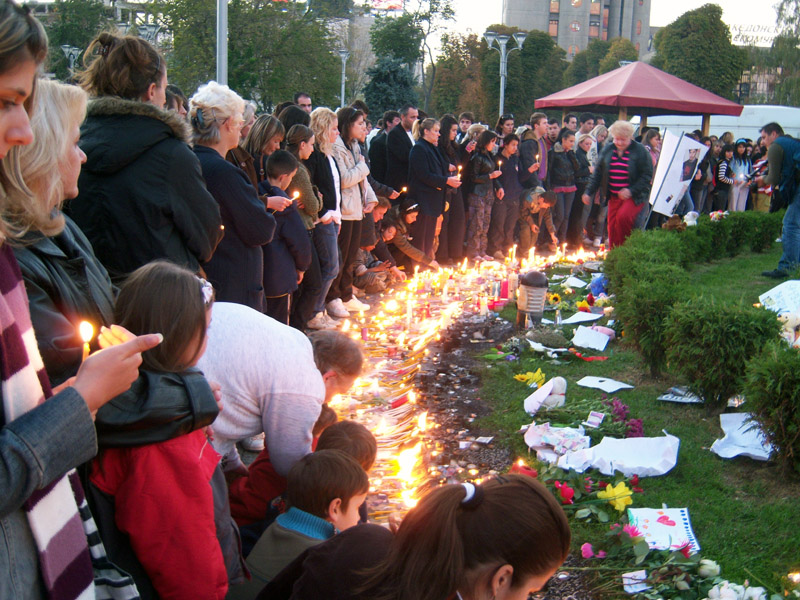 Commemoration for ToÅ¡e Proeski (on 16th of October 2007, the day of his death ), Makedonija square, Skopje, Macedonia. author LBakraceski.